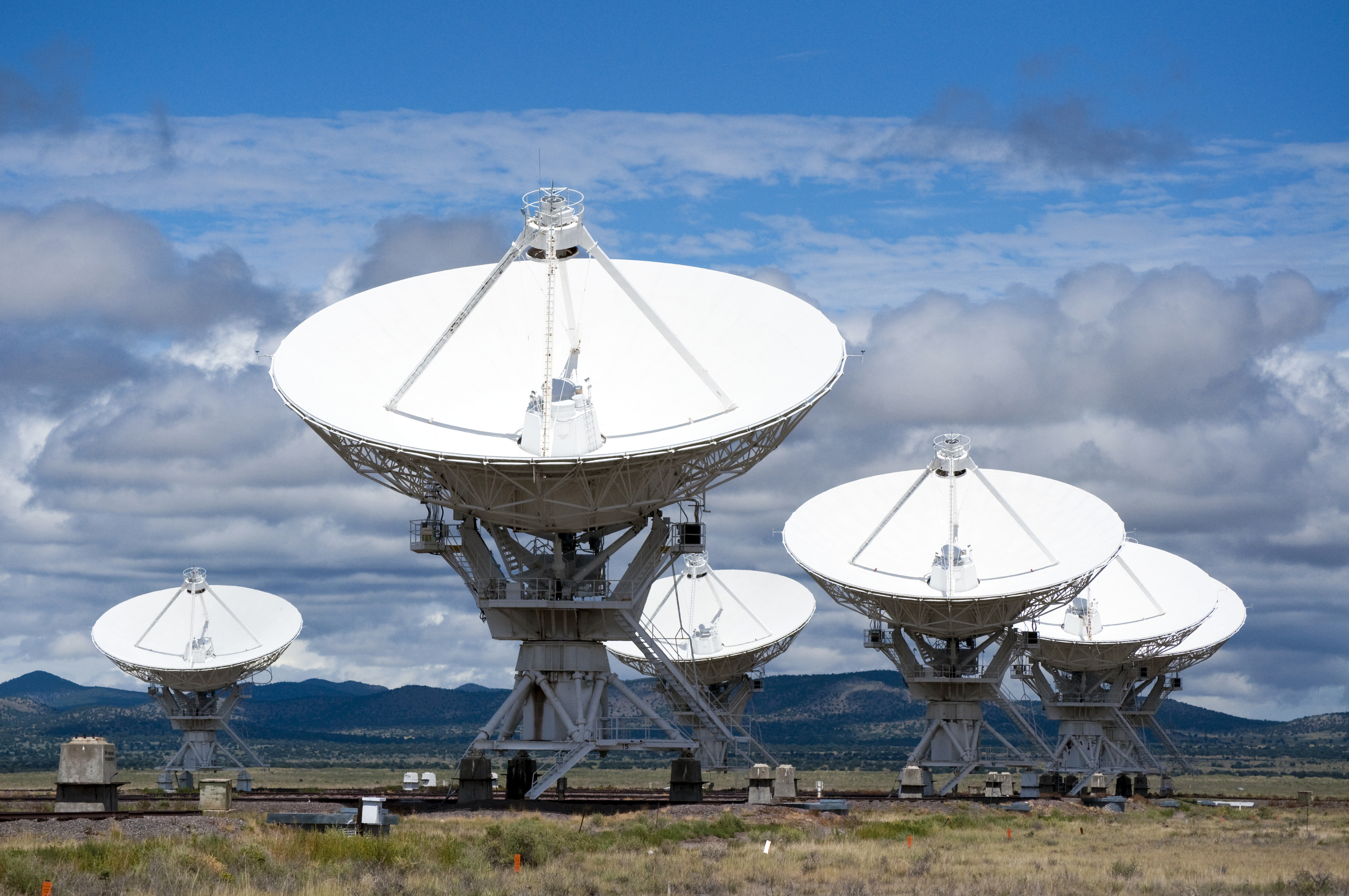 new mexico, north america, road trip, 2009-08 -- United States Road Trip, filtered, edited, the west, southwest, very large array, VLA, radio telescope, radio telescopes, radi